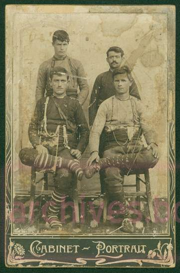 Kocho Hadzhigaev with friends